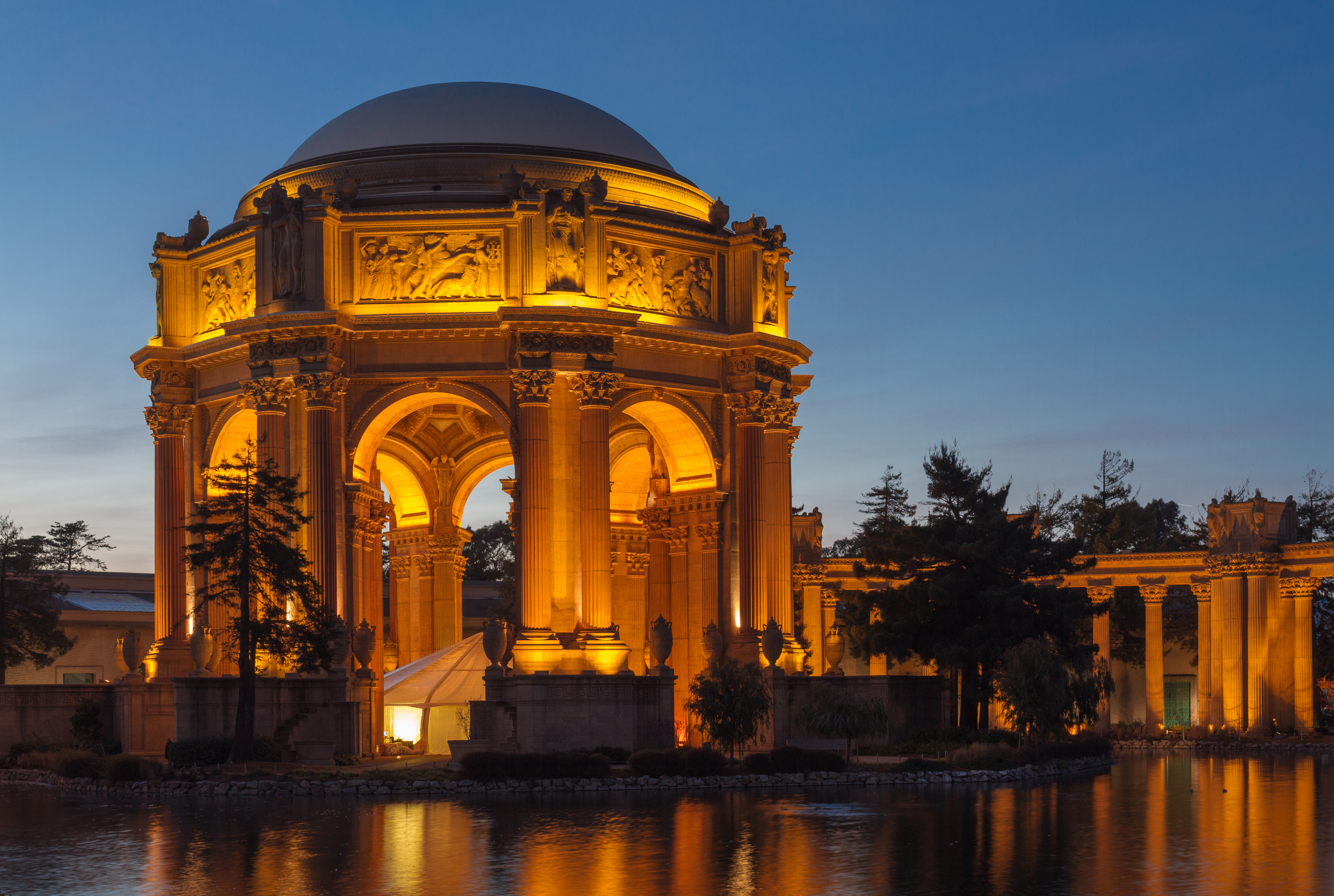 The San Francisco Palace of Fine Arts during the wedding of rock guitarist Neal Schon and Michaele Holt Salahi (The Real Housewives of D.C.) on December 15, 2013. For this occasion, a white tent had been erected in the rotunda of the Palace.